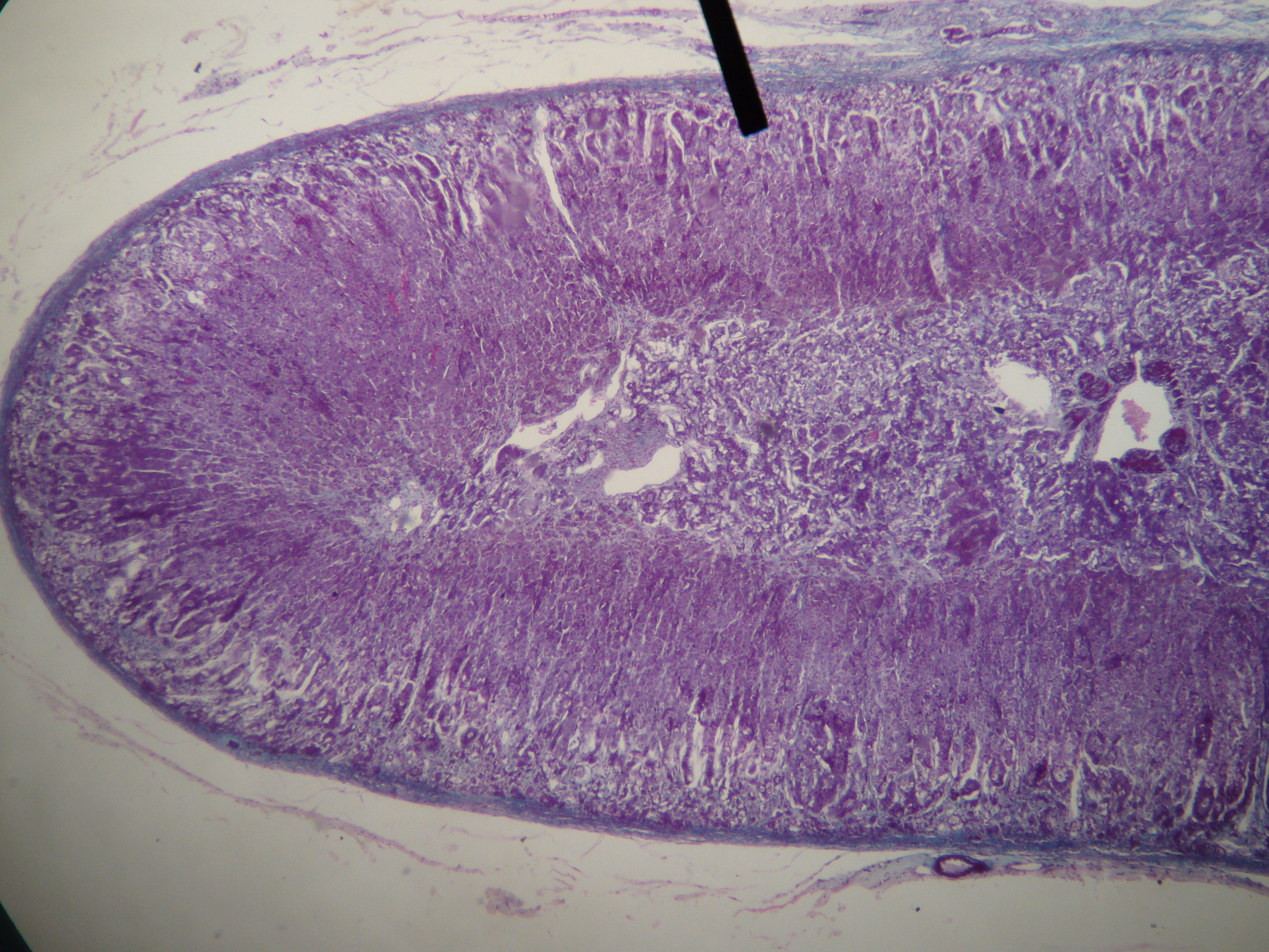 Author's own picture. Digital camera shot though a microscope; human adrenal gland.